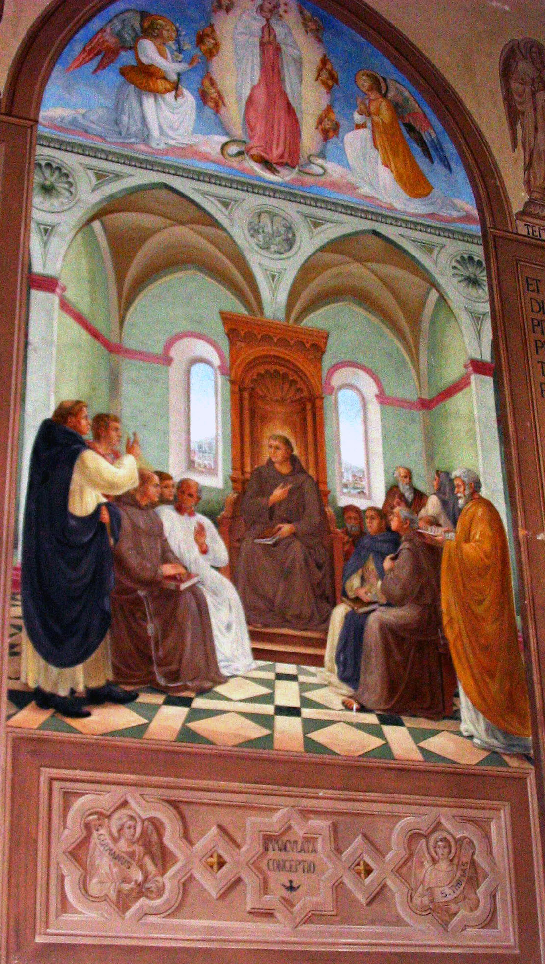 Ein Kerem, Church of Visitation